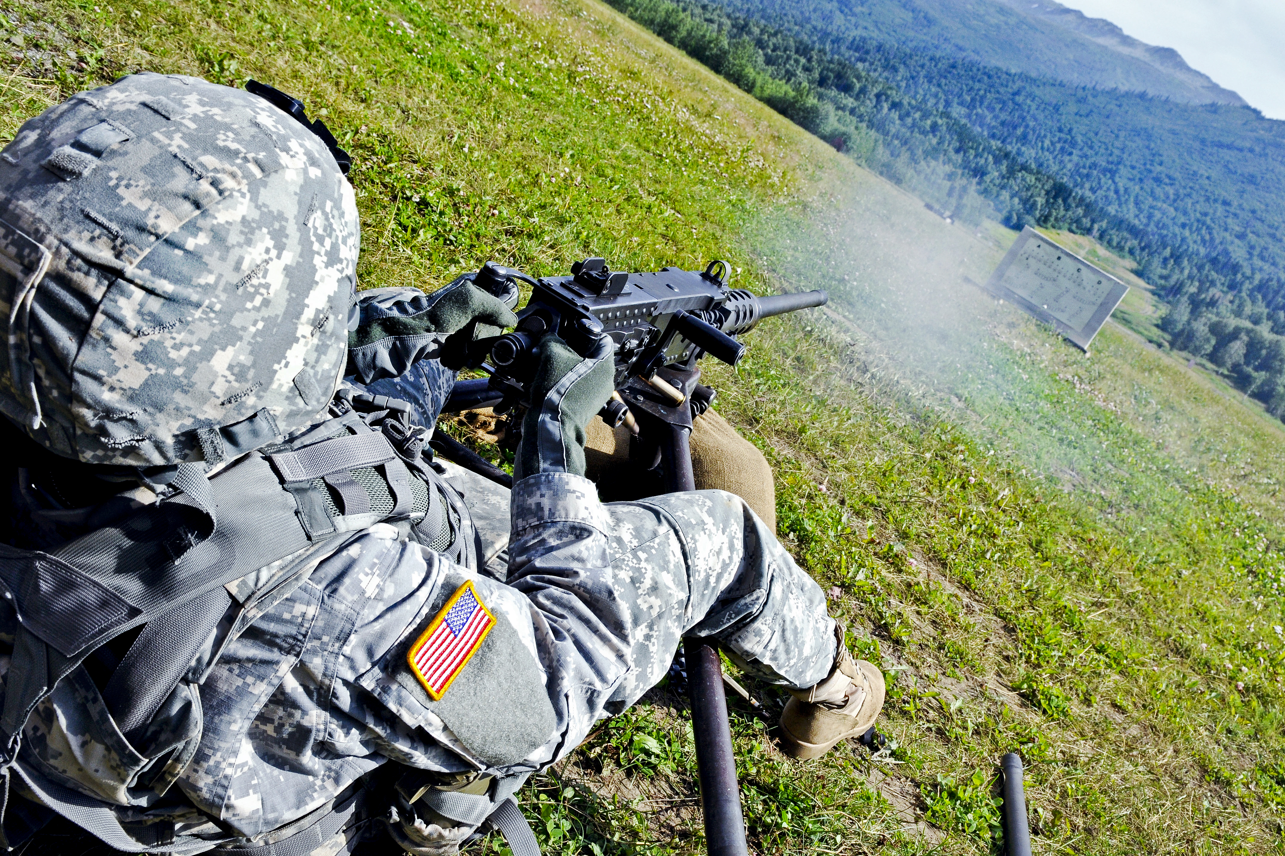 Army Pfc. Kathy Simmons engages the 10-meter target with an M2 .50-caliber machine gun on Joint Base Elmendorf-Richardson, Alaska, Aug. 14, 2012. Simmons is assigned to the 56th Engineer Company, Vertical, 2nd Engineer Brigade.